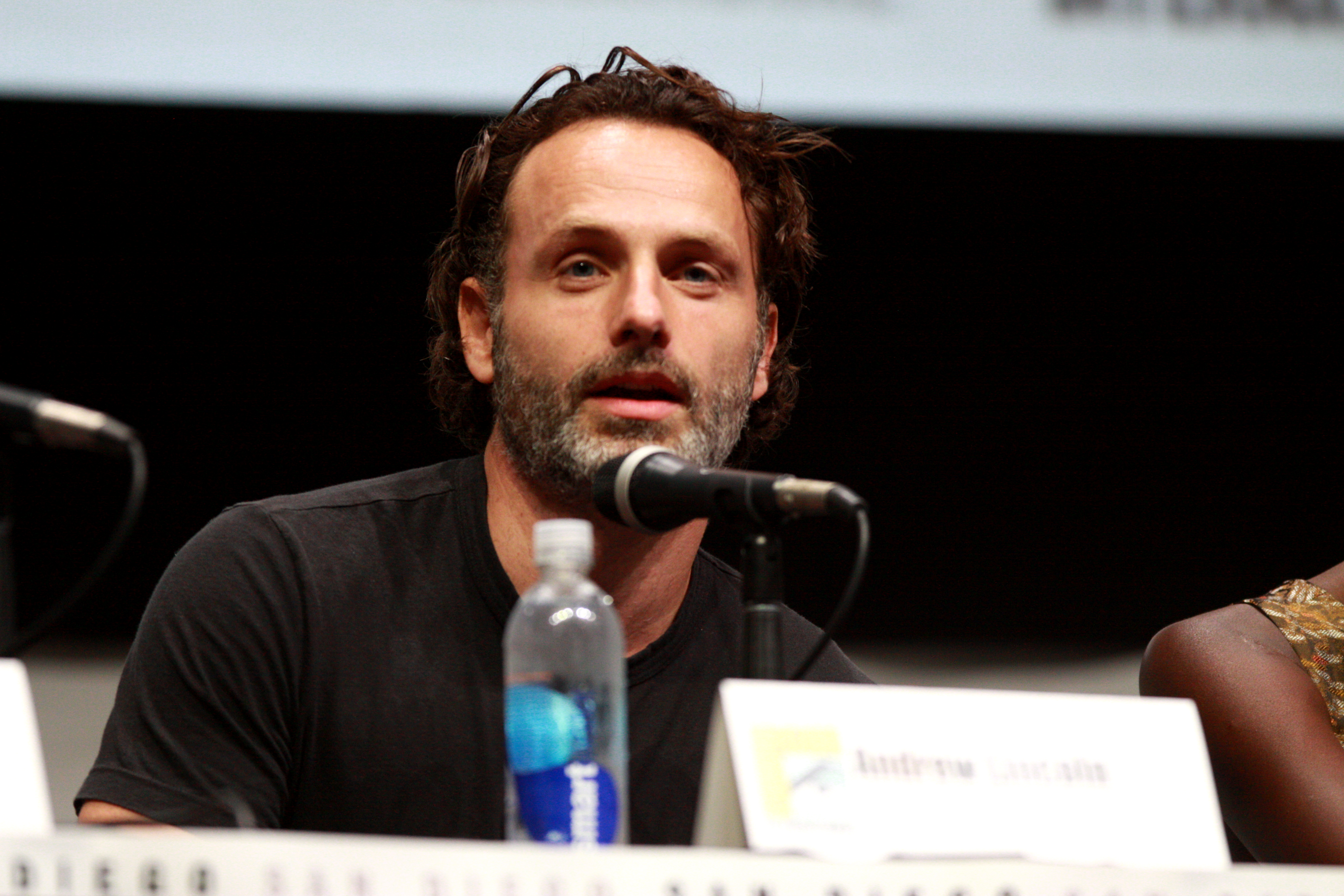 Andrew Lincoln speaking at the 2013 San Diego Comic Con International, for "The Walking Dead", at the San Diego Convention Center in San Diego, California.